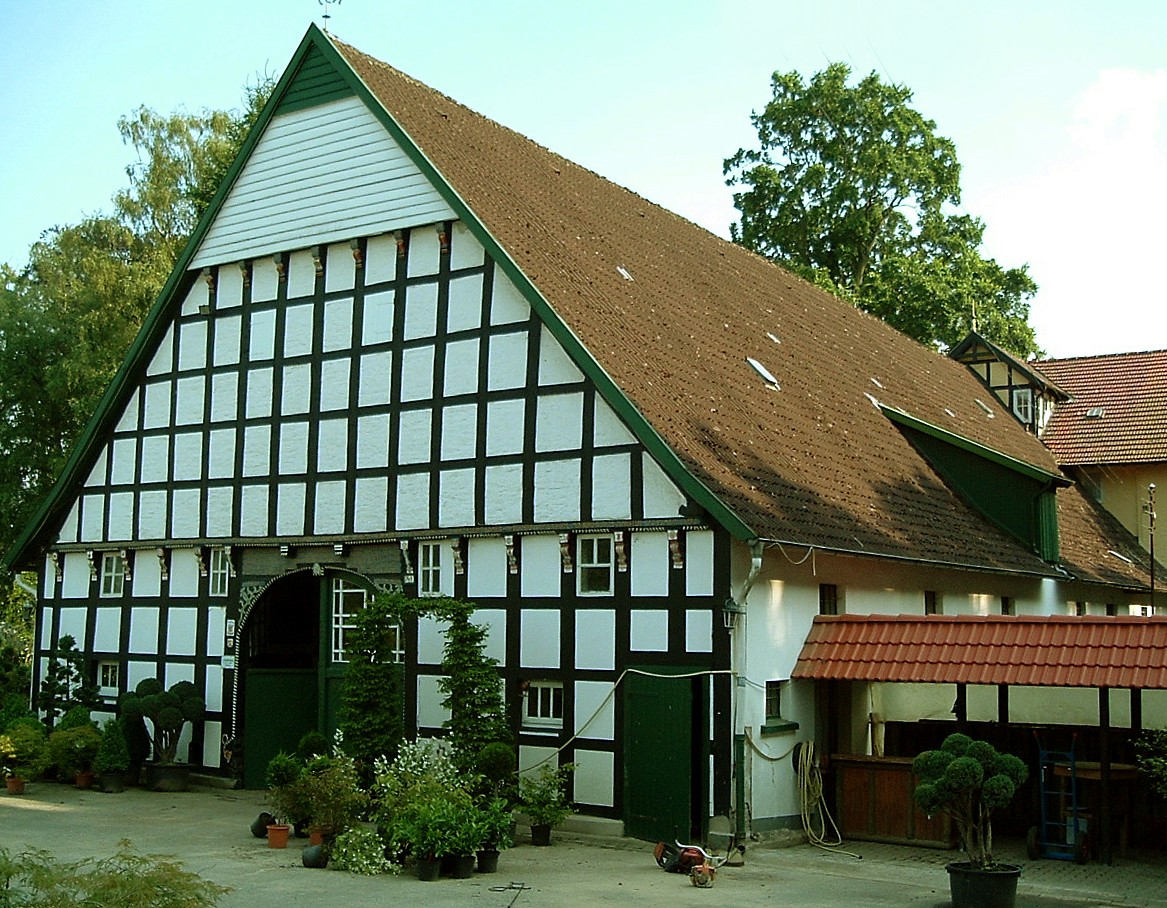 Farmhouse in town of Enger, District of Herford, North Rhine-Westphalia, Germany.